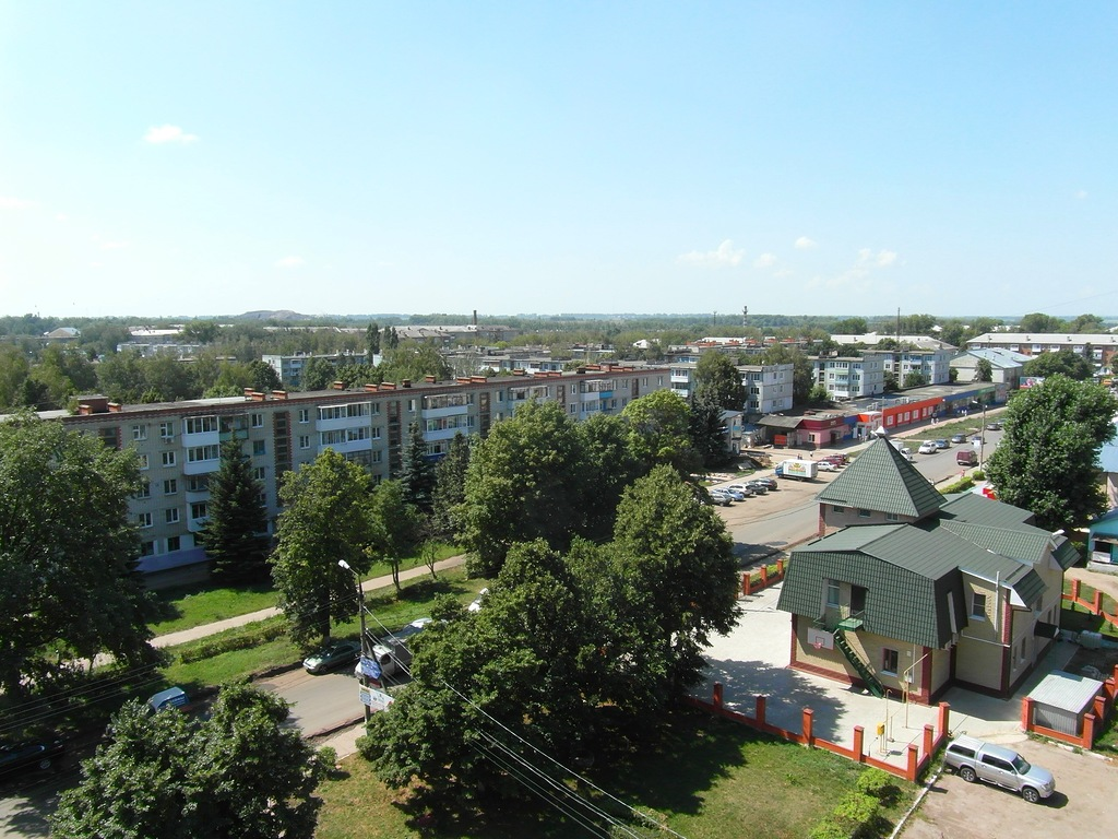 Tula oblast city of Uzlovaya . Russia .